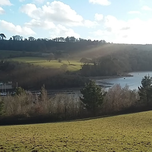 The River Dart at Galmpton Greek, South Hams